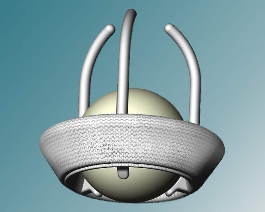 Model AKCH-02 artificial heart valve